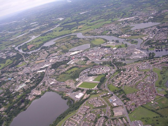 Enniskillen from the air at 2000ft